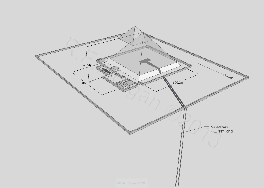 The pyramid complex of Djedefre